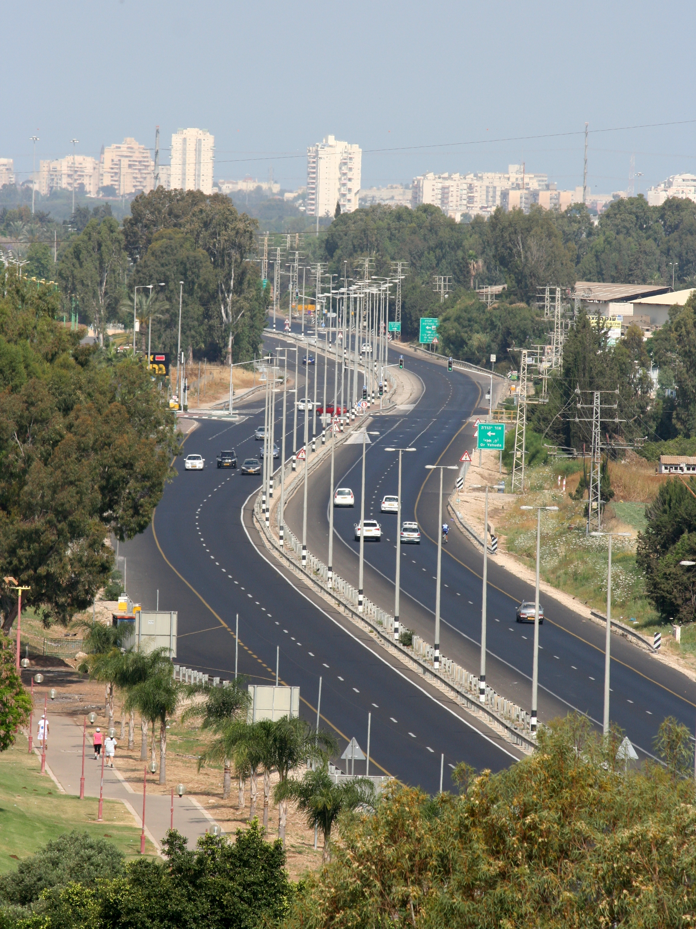 Looking westward on Highway 461 near Or Yehuda